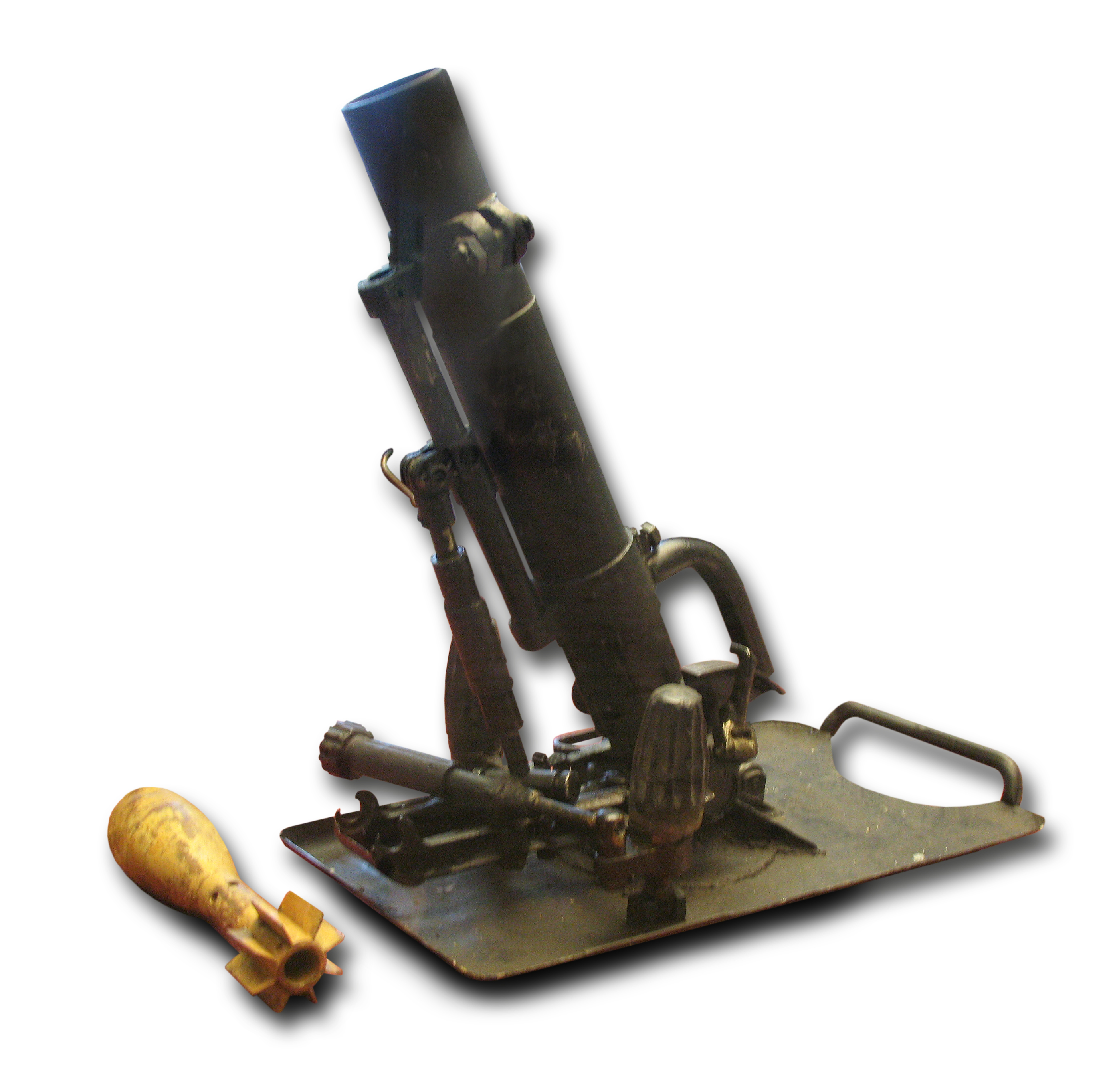 Grenade Launcher 36 in the High Fortress, Salzburg, Austria